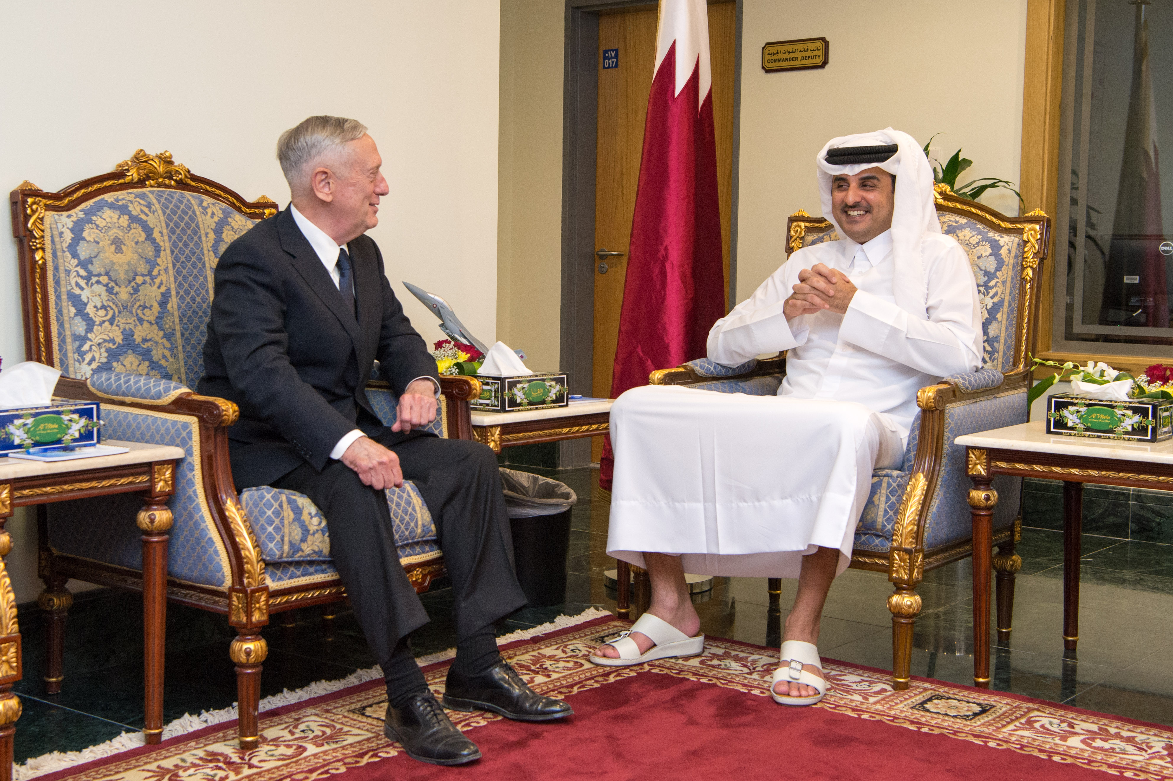 Secretary of Defense Jim Mattis meets with Qatar’s Emir Sheikh Tamim bin Hamad Al-Thani at Al Udeid Air Base in Qatar on Sept. 28, 2017. (DOD photo by U.S. Air Force Staff Sgt. Jette Carr)